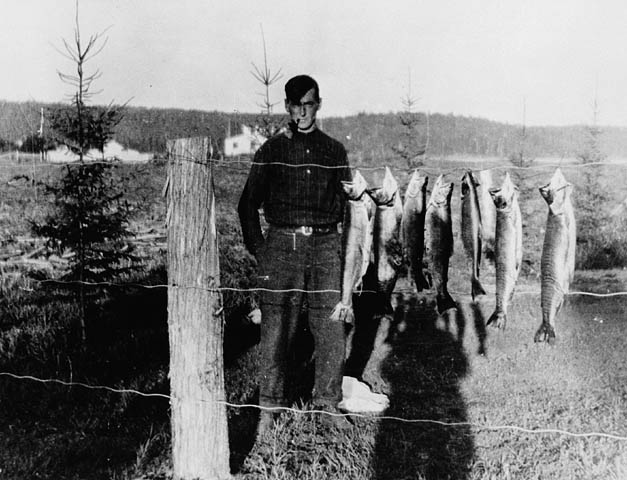 Tom Thomson, a member of the Group of Seven.